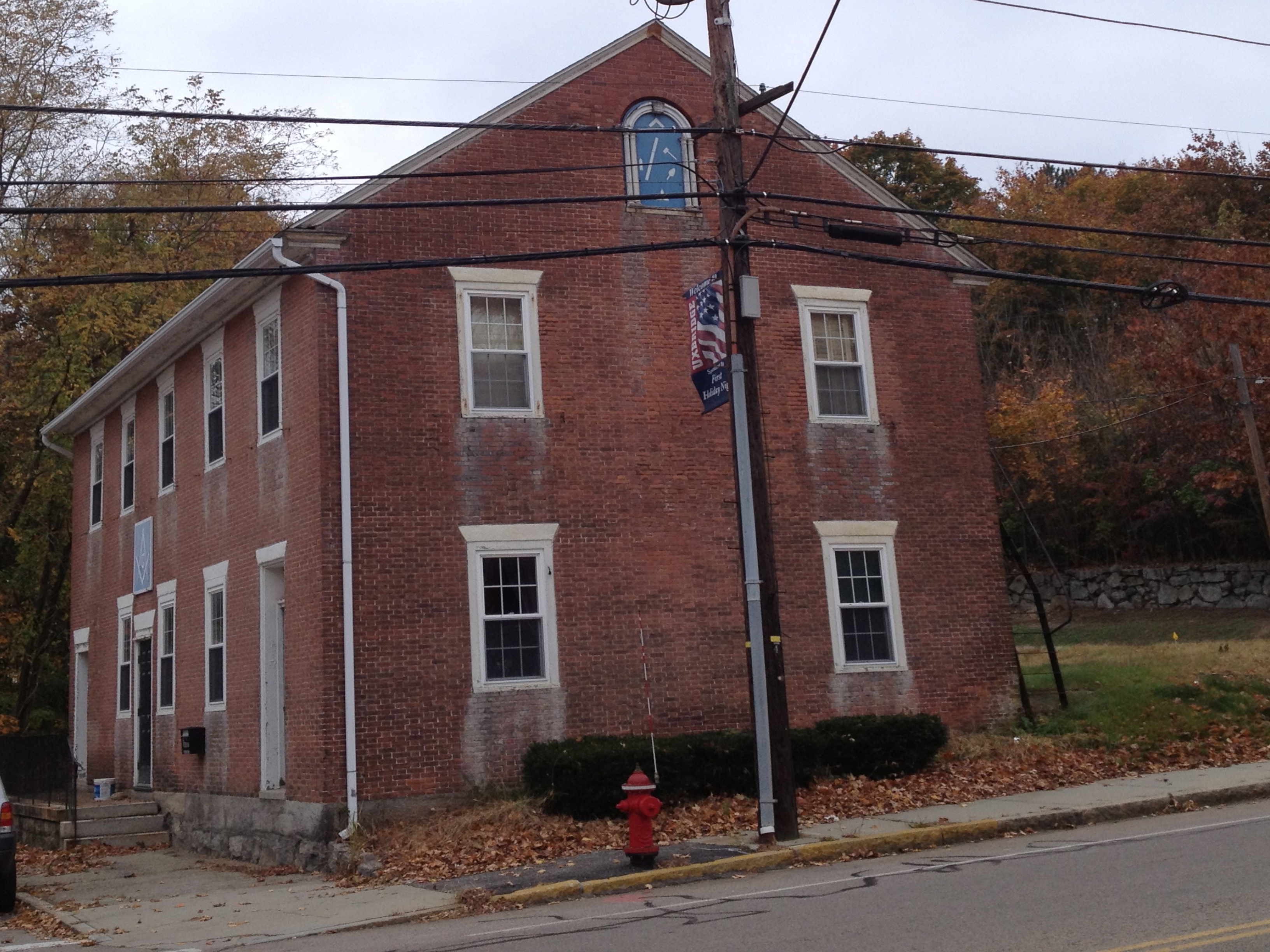 Historic Uxbridge Academy, 1809-1851. Had an outstanding educator, Joshua Mason Macomber. Noted leaders of that period graduated from this historic school.